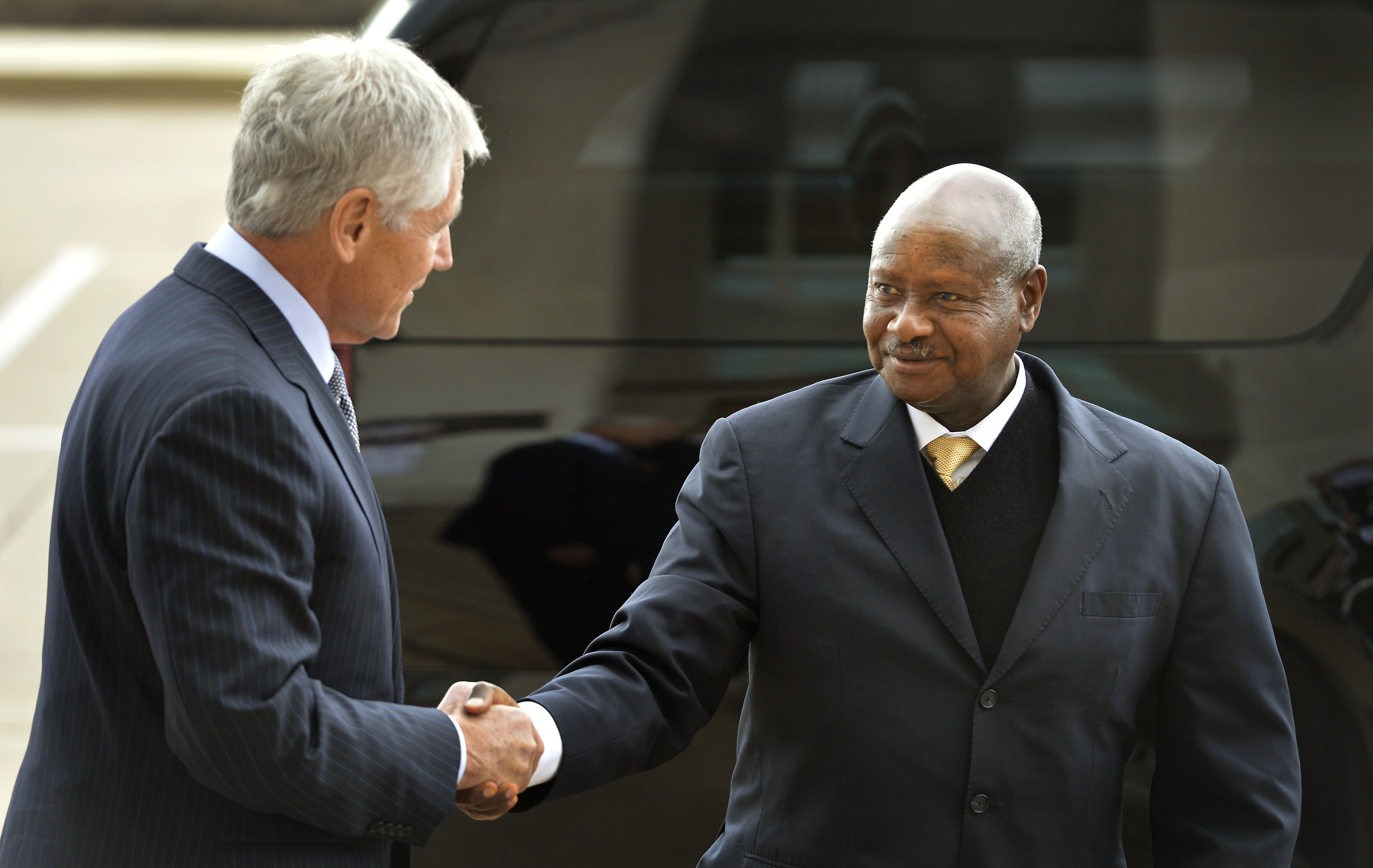 Secretary of Defense Chuck Hagel hosts an honor cordon to welcome Uganda's President Yoweri Museveni to the Pentagon for a meeting September 27, 2013.